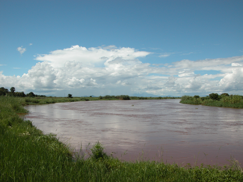 Shire Fluss in Malawi next to Nsanje at the border to Moçambique.